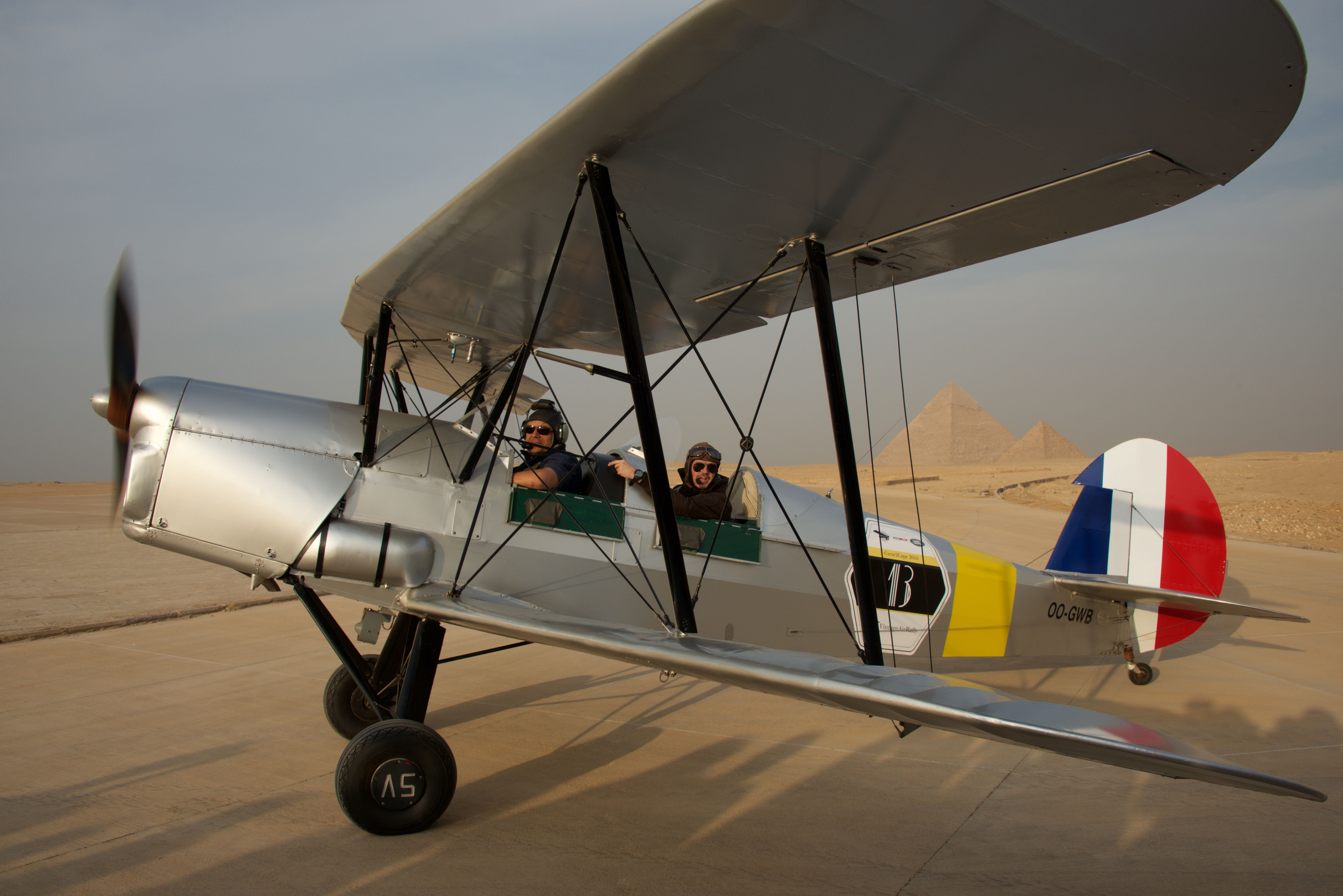 Photo by Beatrice de Smet